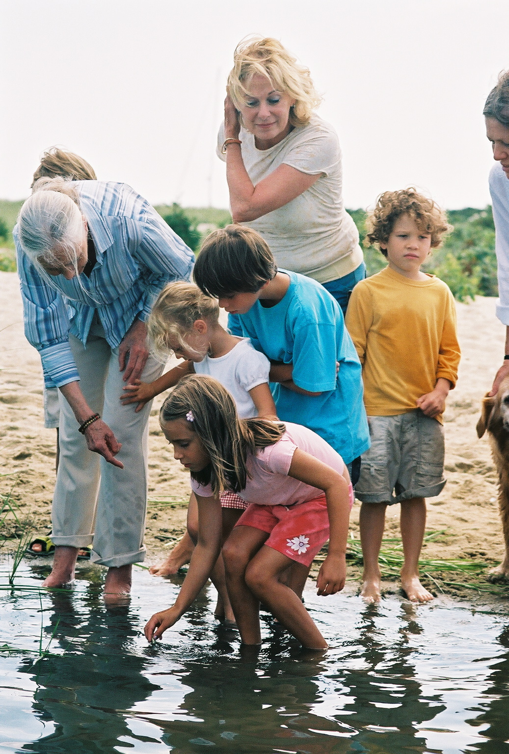 Dr. Jane Goodall - explorer, teacher, adventurer